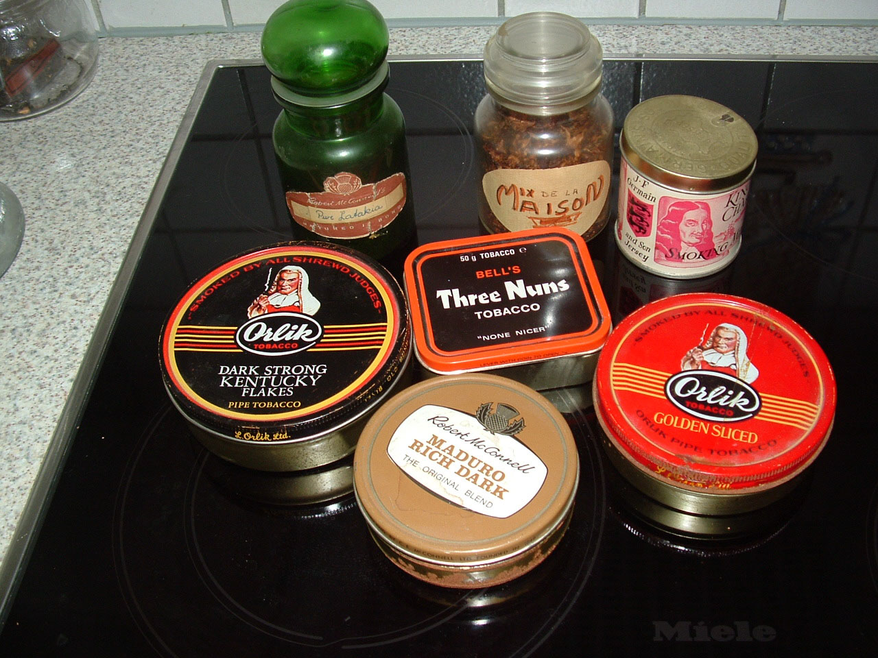 Tobacco- tins from own collection